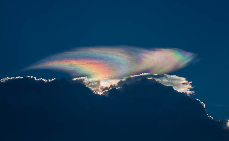 Example of a cloud iridescence effect of the sunlight diffracting through the cloud. Captured on July 31, 2012 at 7:38 PM ET looking West from Boynton Beach, Florida USA by George Quiroga (